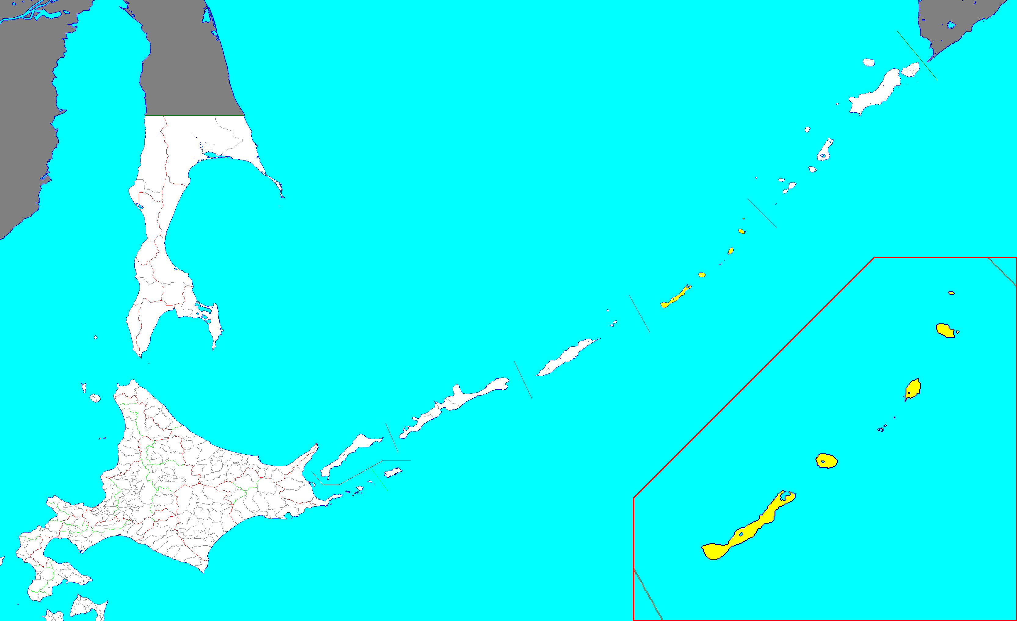 location of Shimushiru in Chishima Subprefecture, Hokkaido Prefecture, Japan(1876/01/14)